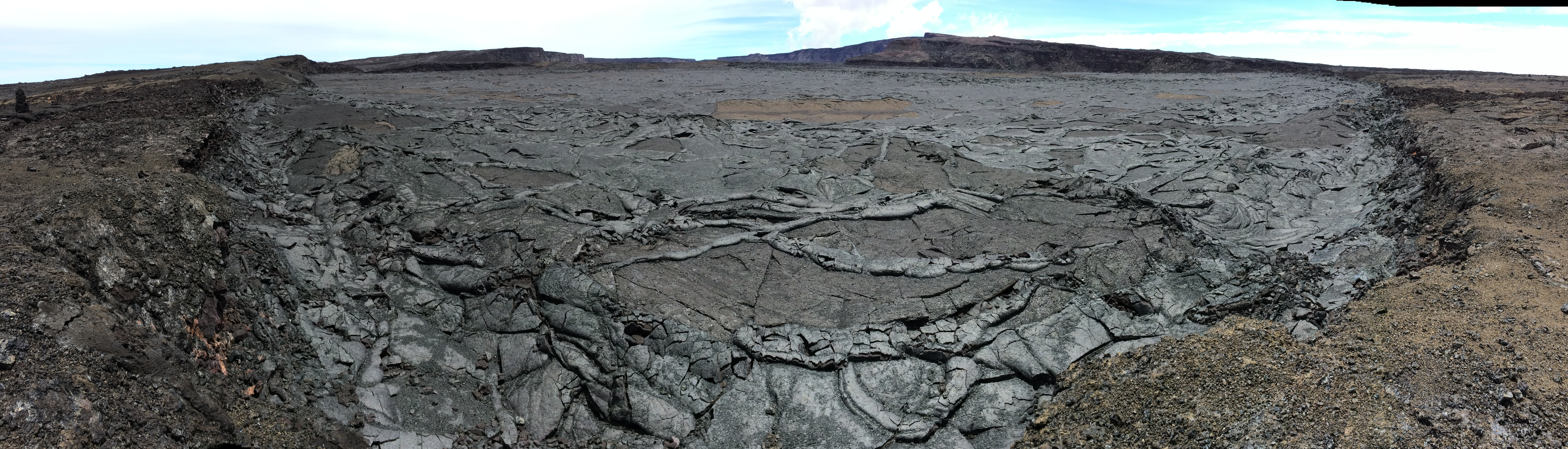 Moku'āweoweo caldera on Mauna Loa summit (North pit).